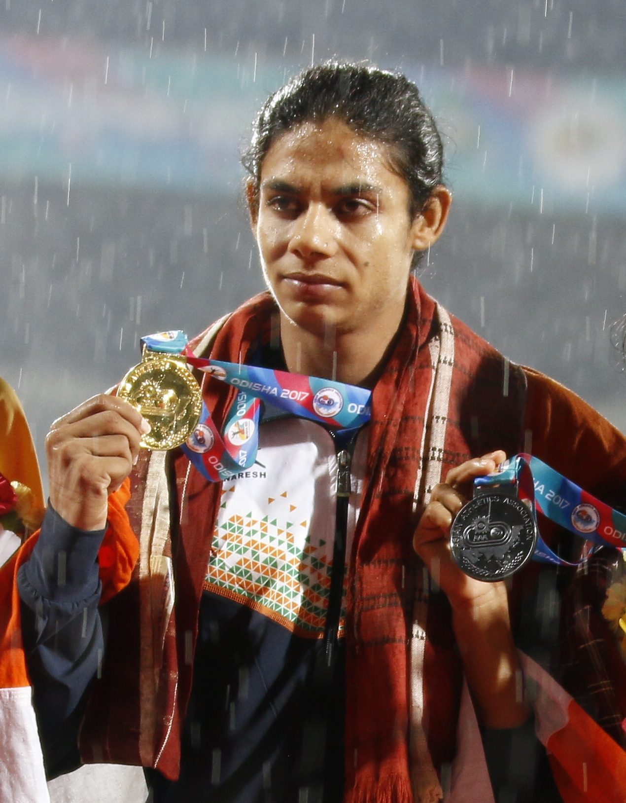 Athletes during 22nd Asian Athletics Championships in Bhubaneswar.